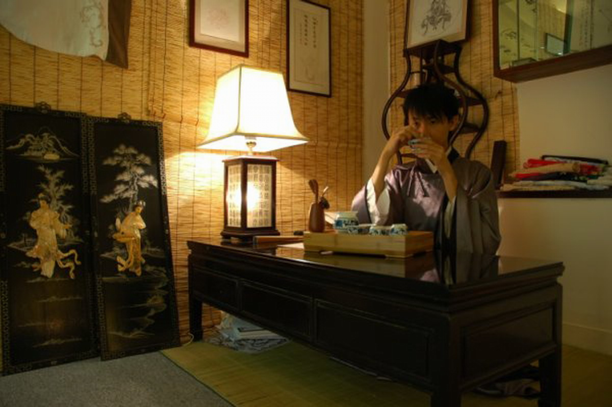 Chinese tea ceremony in hanfu